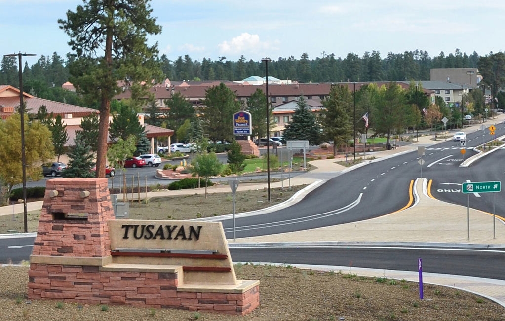 A closer look at the image File:Roundabout at entrance of Tusayan.jpg